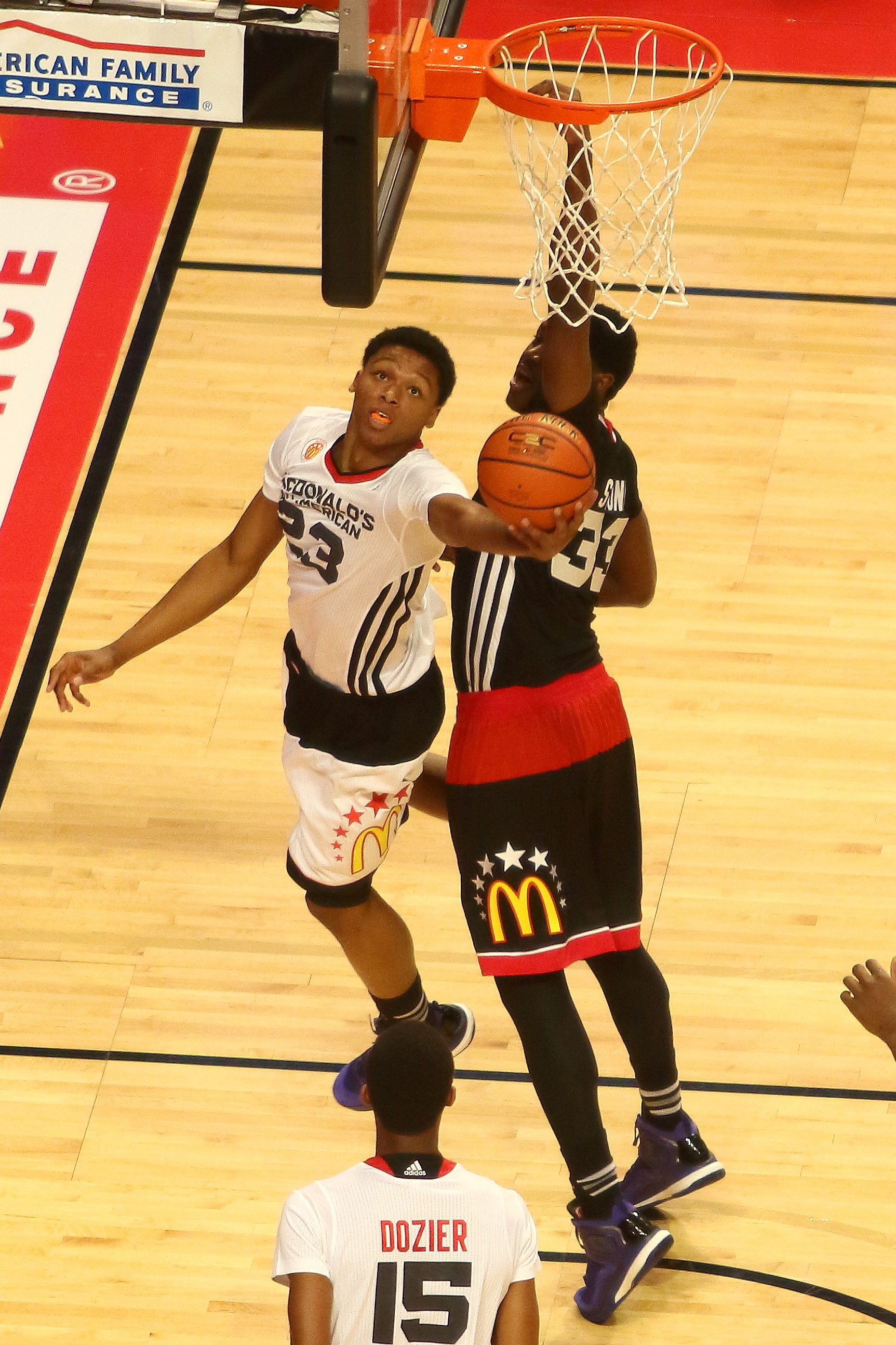 Ivan Rabb against Diamond Stone in the w:2015 McDonald's All-American Boys Game